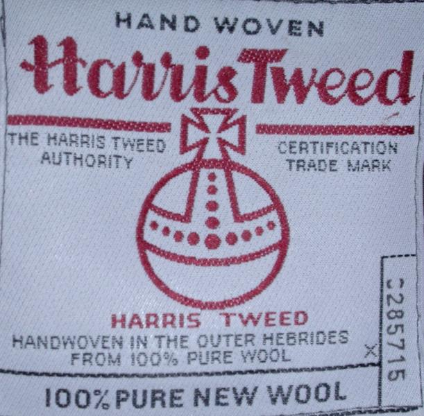 Harris Tweed Orb Mark as label.